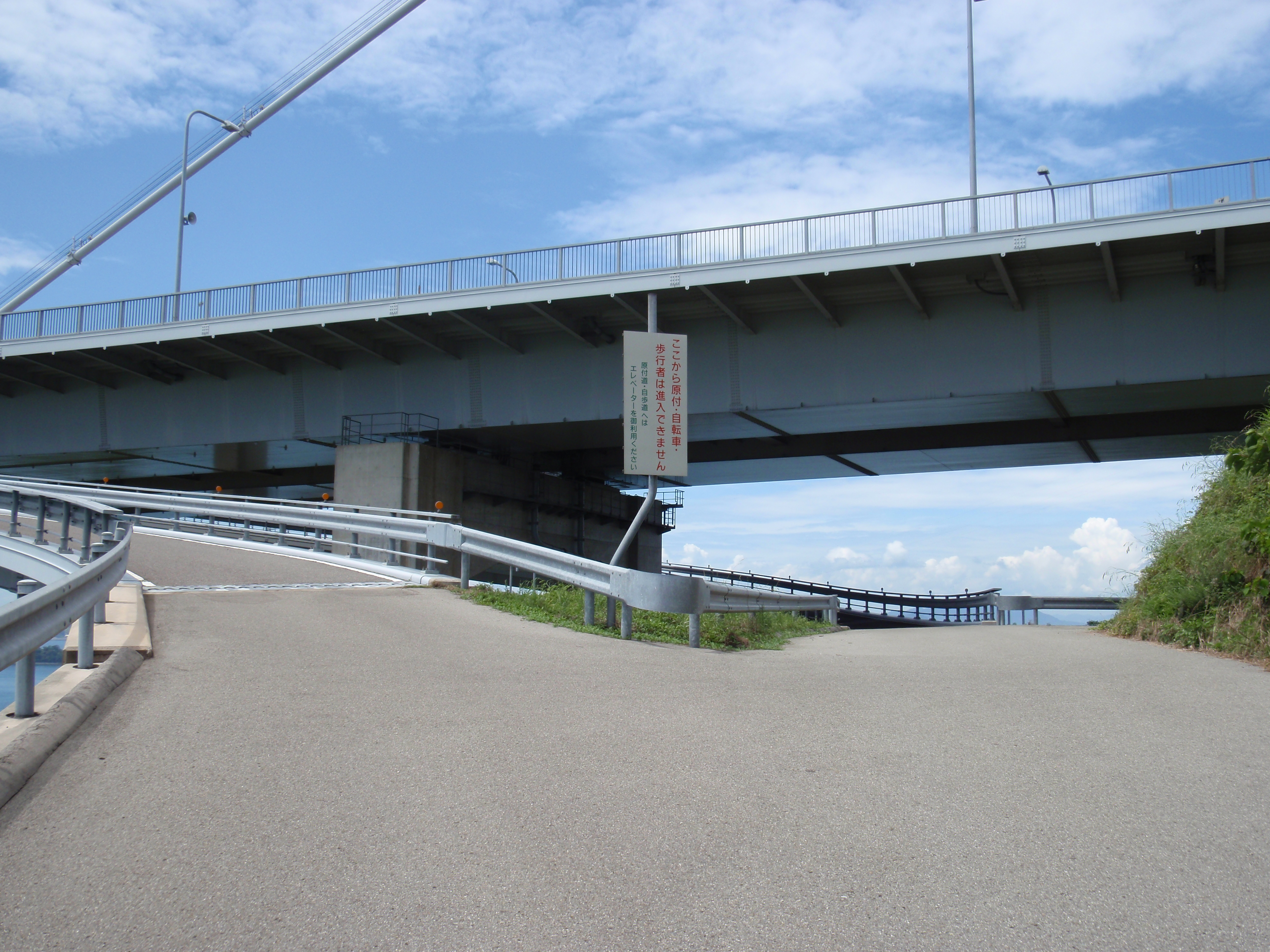 Umashima Interchange